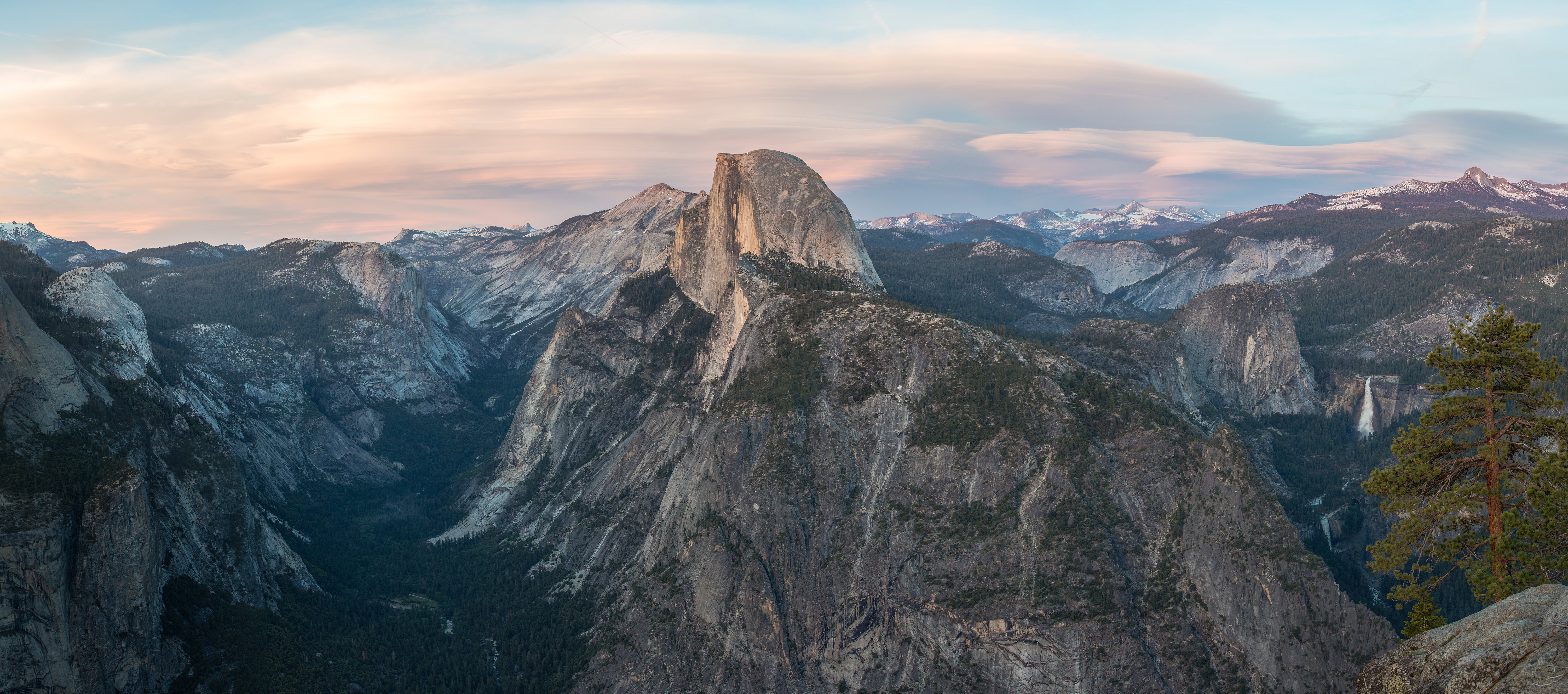 A panoramic view from Glacier Point in Yosemite National Park in California, United States. The view extends from roughly north (on the left side to east (on the right).